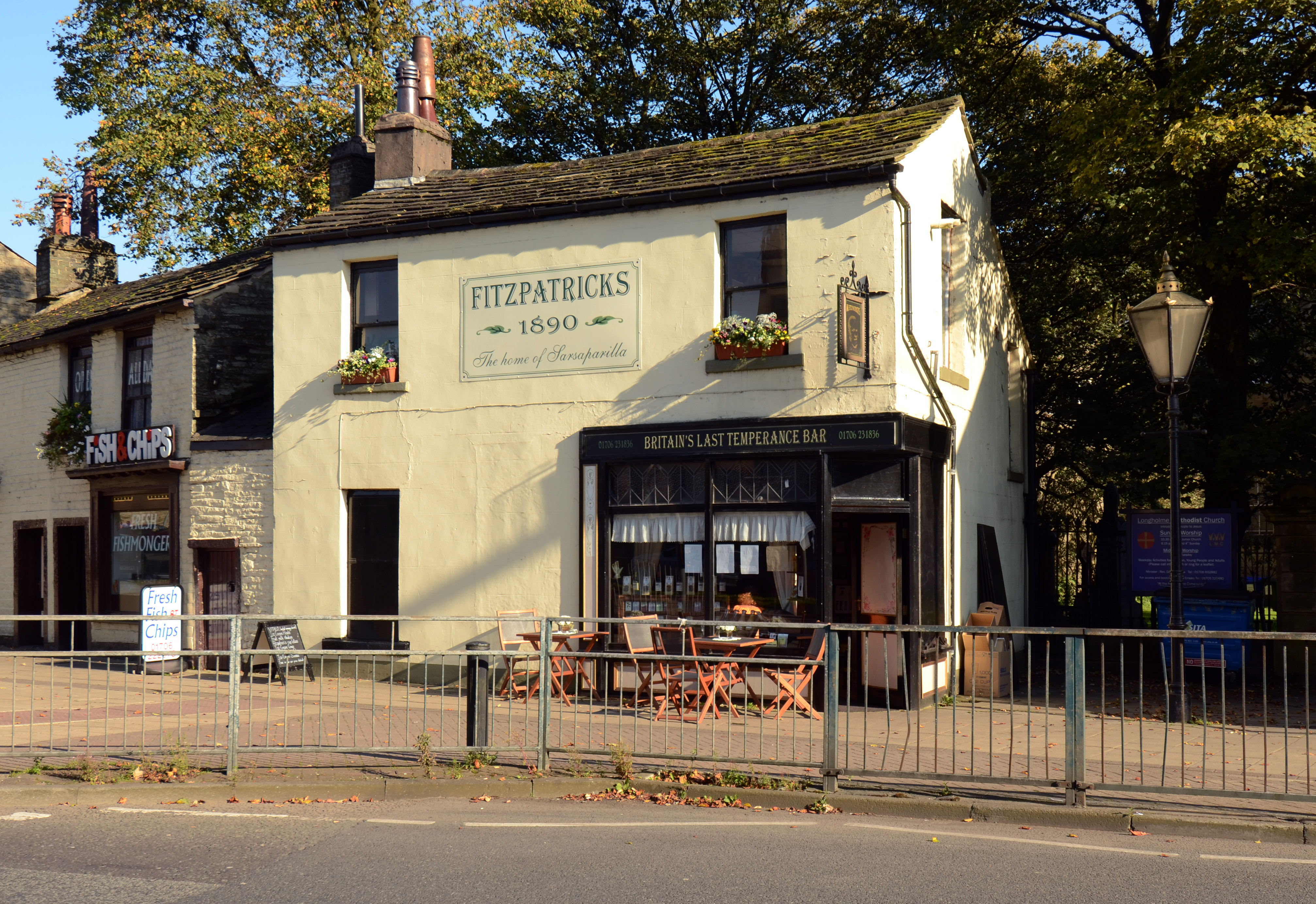 Fitzpatrick’s is the last original temperance bar is located in the town of Rawtenstall, Lancashire, England.